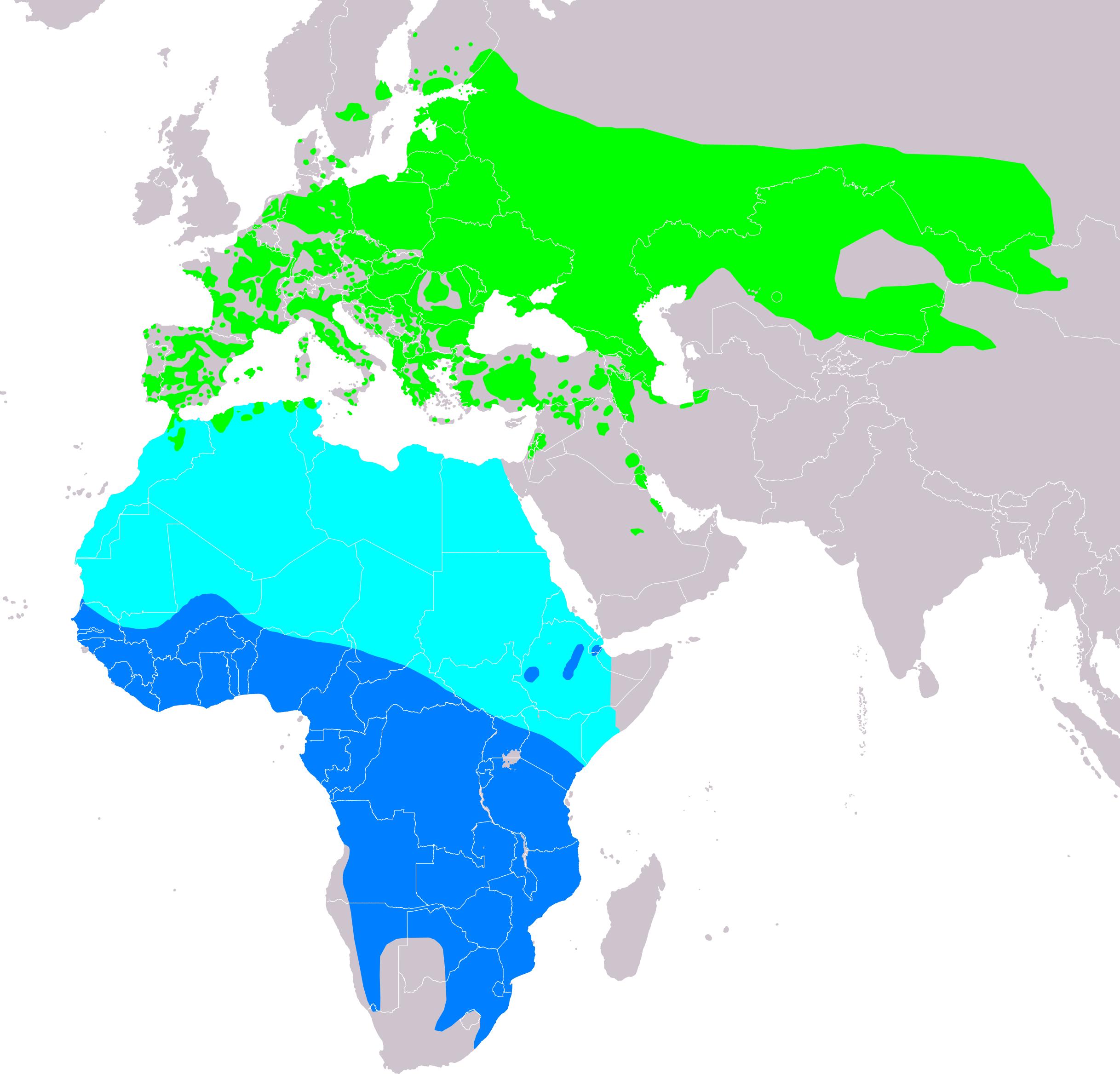 The distribution map of great reed warbler (Acrocephalus arundinaceus) according to IUCN version 2019.1 , Legend: Extant, breeding (#00FF00), Extant, passage (#00FFFF), Extant, non-breeding (#007FFF)